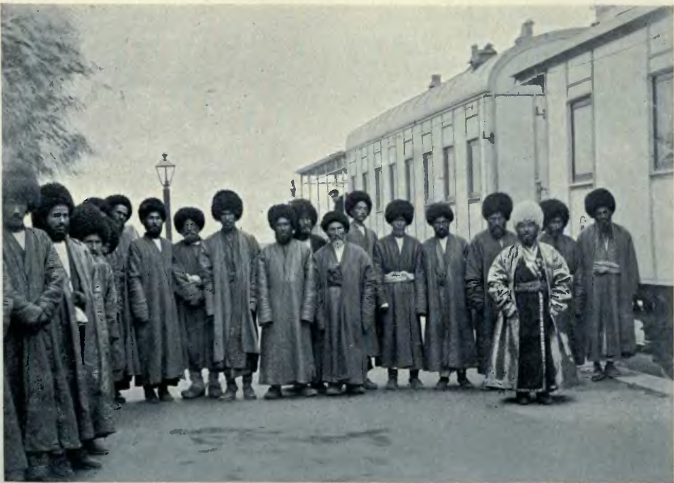 Turcomans at Askhabad railway station.